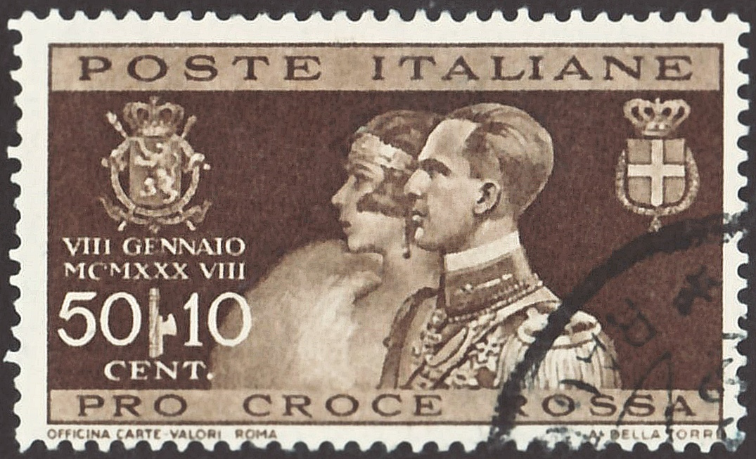 Stamp of the Kingdom of Italia; 1930; surcharge stamp of the issue "Nozze del principe Umberto con Maria Jose del Belgio" ("Wedding of the Prince Umberto (de Savoy) and Princess Maria José of Belgium"); framed side portraits of Umberto and Maria, both with view to left; postmarked Stamp: Michel: No. 326; Yvert & Tellier: No. 252; Scott: No. 240 Color: sepia to brown Watermark: Italy No. 1 (crown) Nominal value: 50 + 10 Cent. (Centesimi) (10 Cents as charity surcharge for the Italian Red Cross) Postage validity: from 8 January 1930 until 31 December 1931 date QS:P,+1930-00-00T00:00:00Z/8,P580,+1930-01-08T00:00:00Z/11,P582,+1931-12-31T00:00:00Z/11 Stamp picture size (printed area without blow names line): 37.0 x 21.0 mm